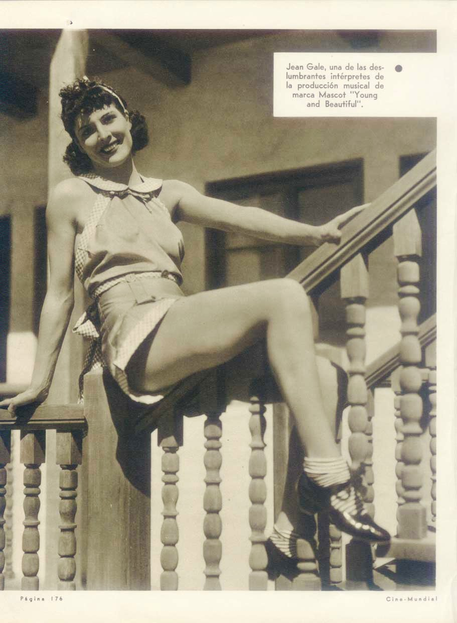 Publicity photo of Jean Gale for Argentinean Magazine. (Printed in USA)